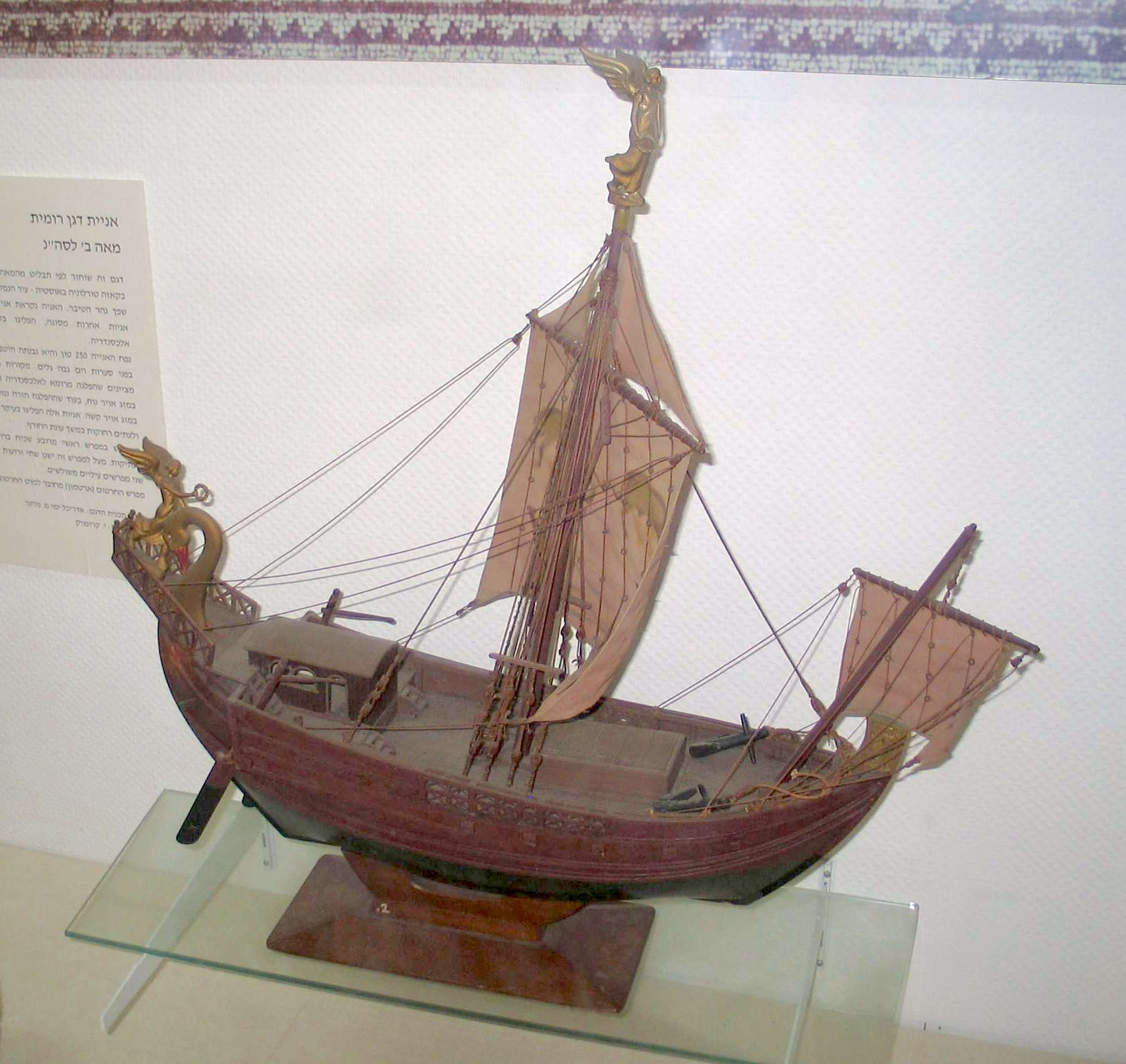 National Maritime Museum, Haifa, Israel.